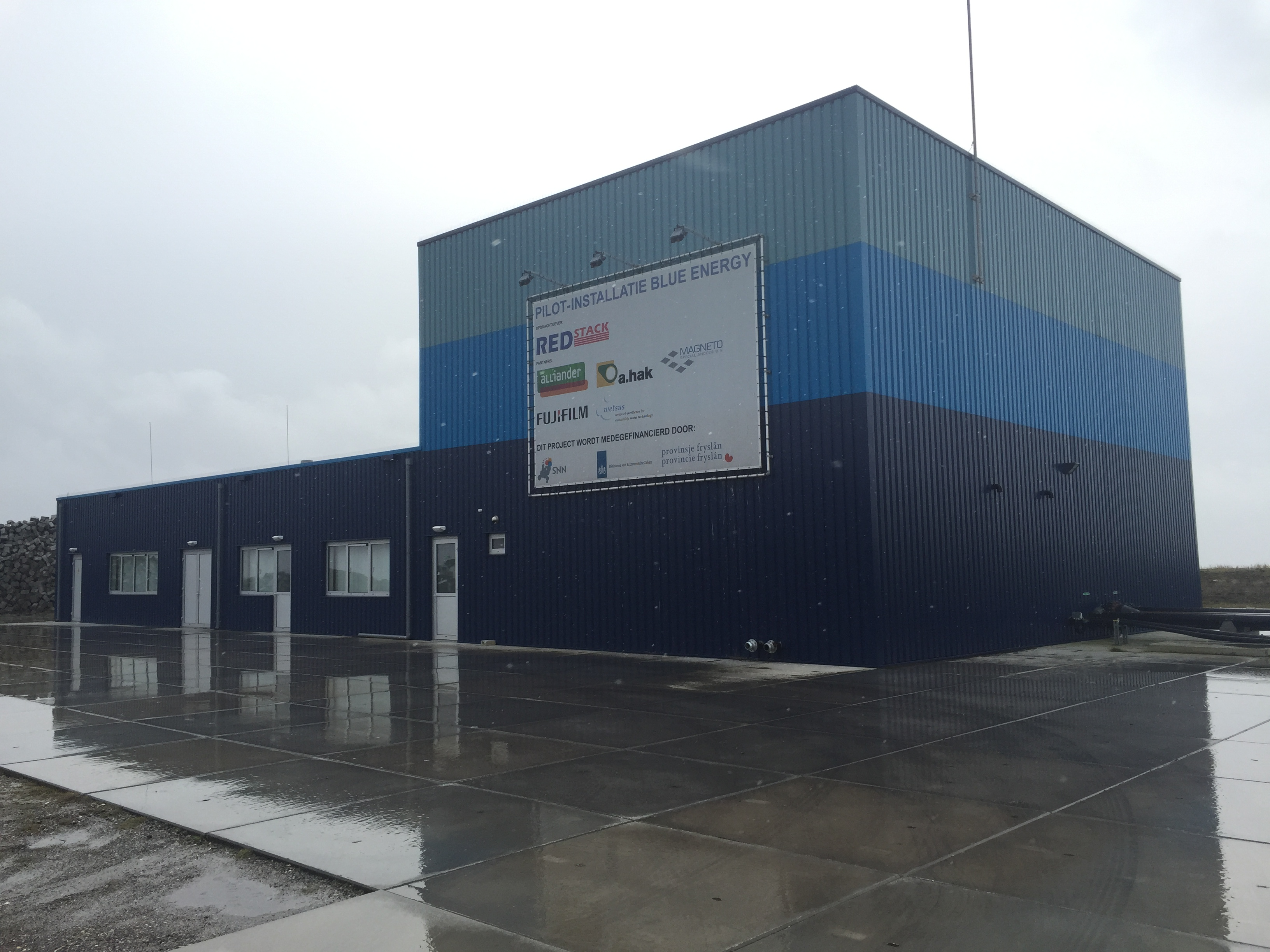 RED-proefinstallatie afsluitdijk